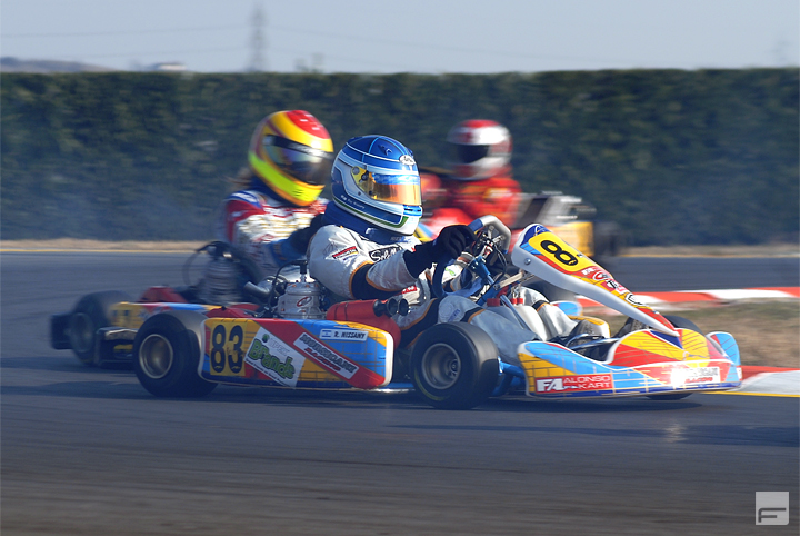 Roy Nissany at Winter Cup in Lonato, racing for Morsicani Racing.